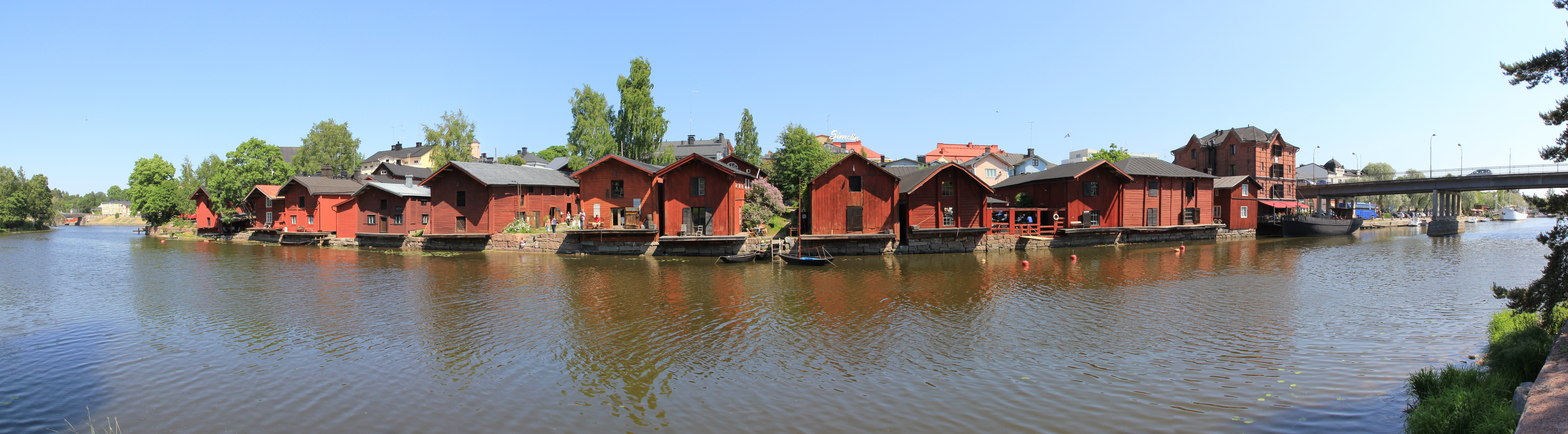 Panoramic view of old warehouses on the shore of Porvoonjoki river.